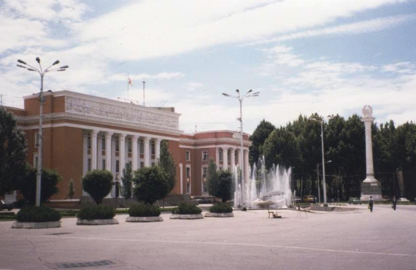 Parliament Building on Dusti Plaza in Dushanbe